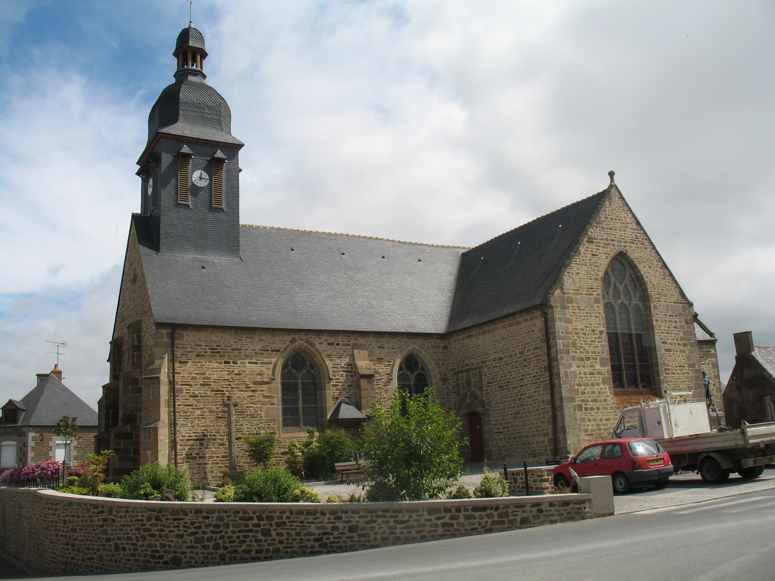 Church of La Chapelle-Janson.